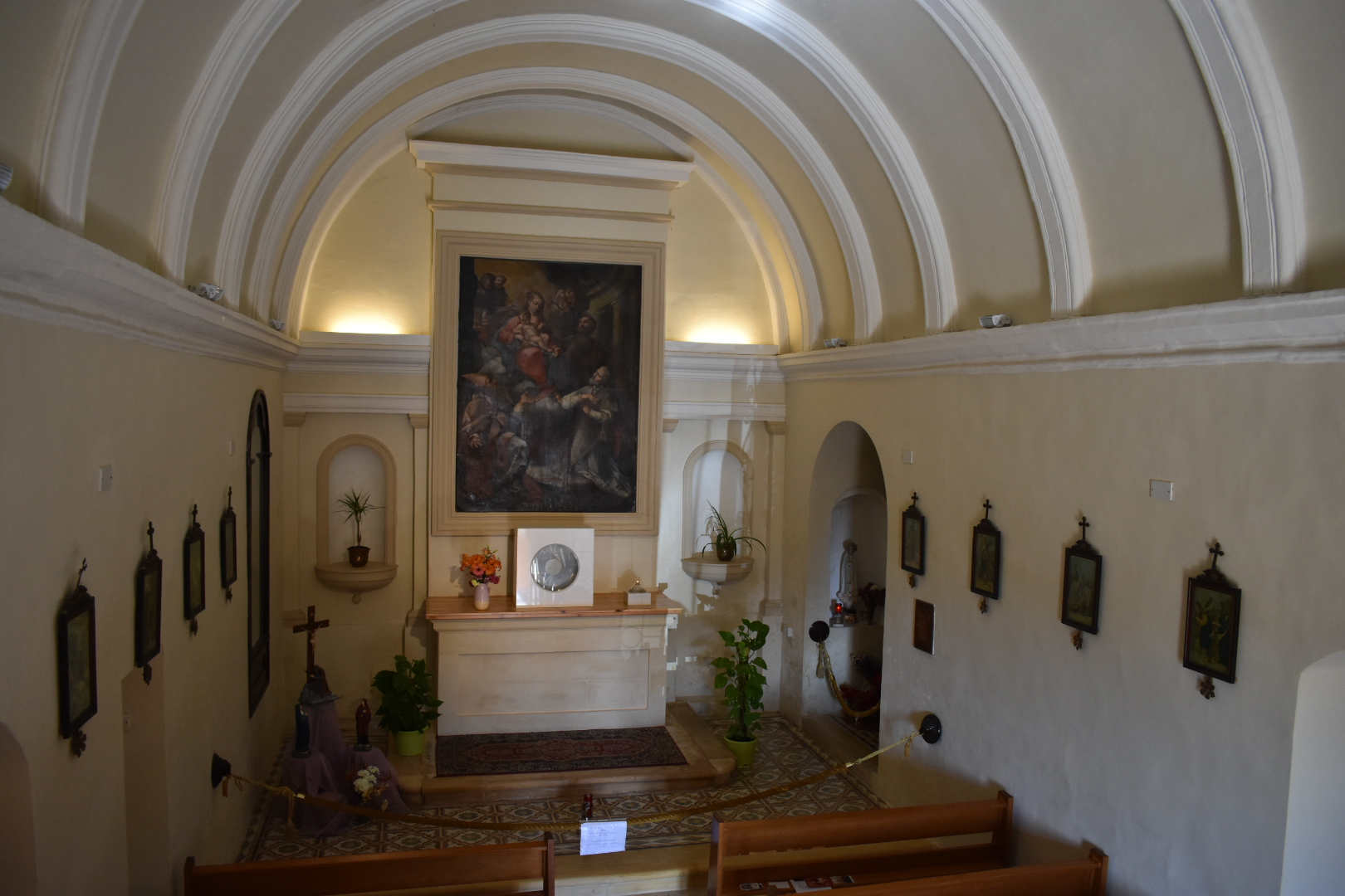 St Martin Church, Baħrija